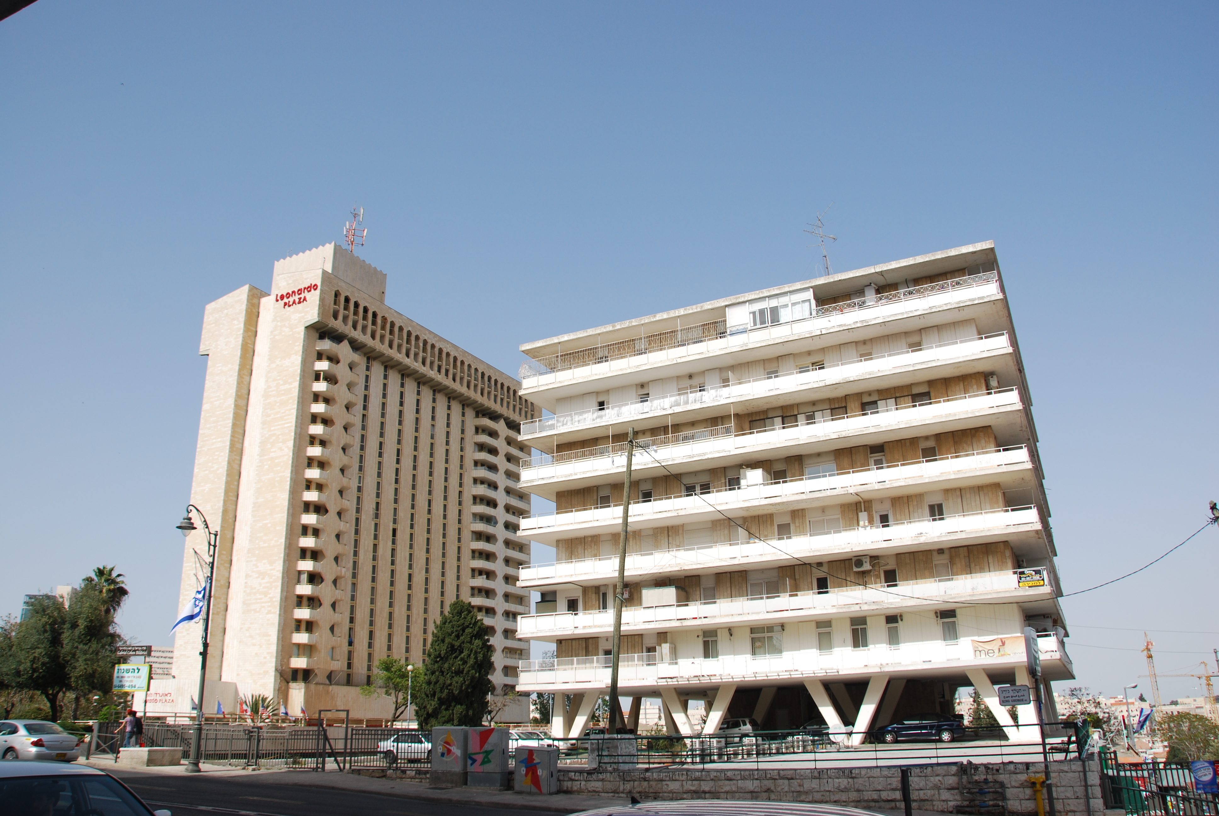 leonardo plaza hotel in rehavia, jerusalem